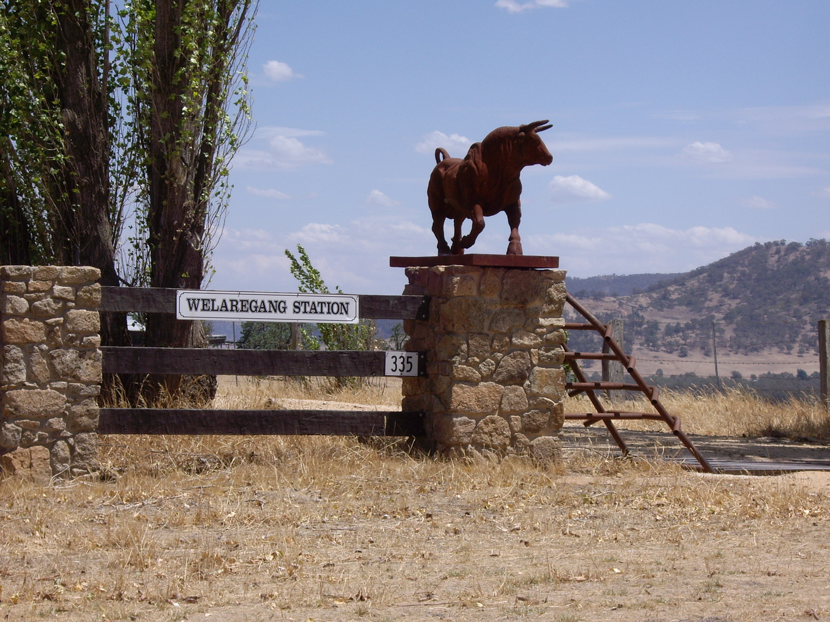 Welaregang Cattle Station